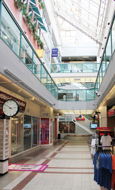 Kuva Torikeskuksen sisätiloista.